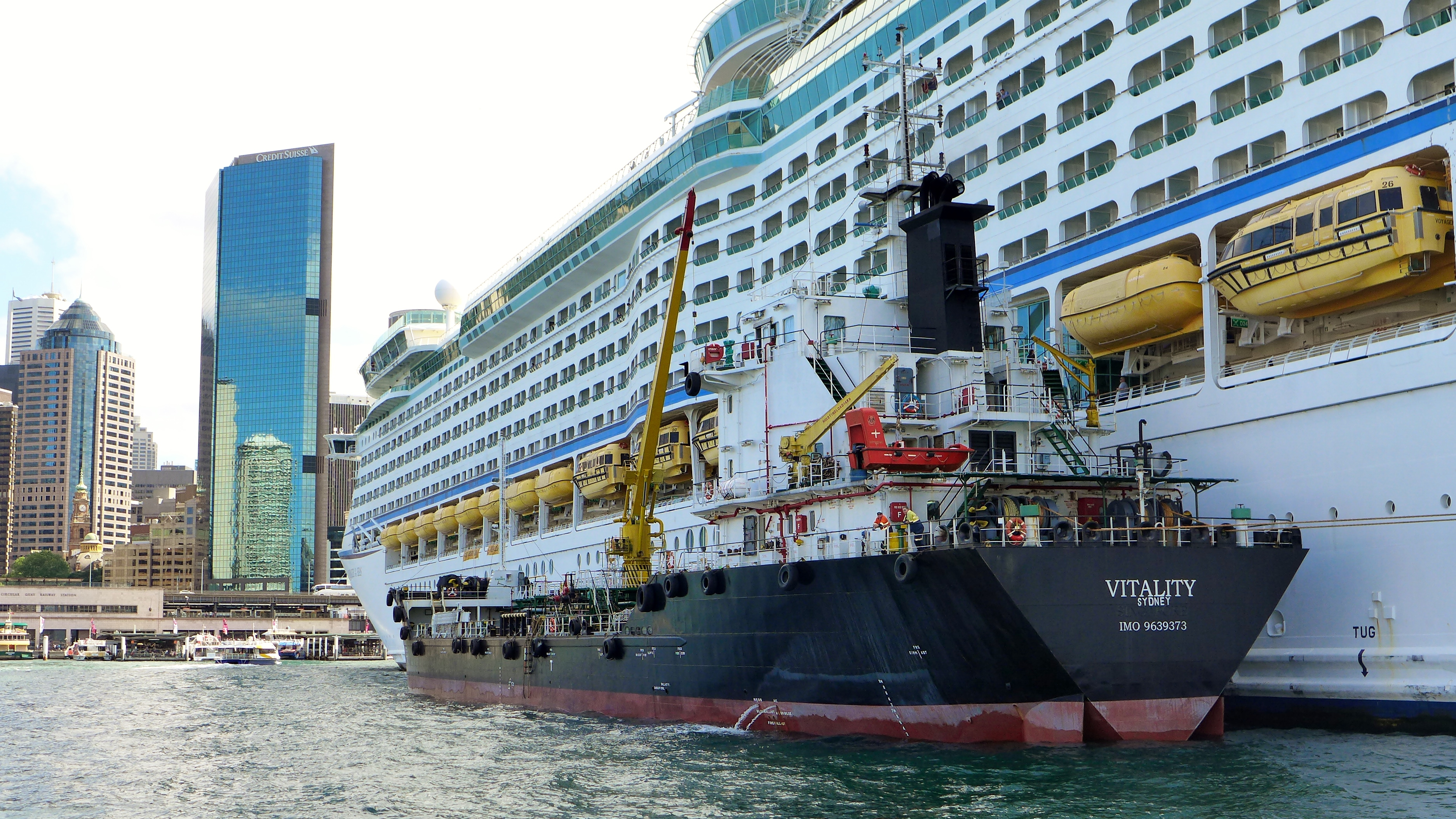 View of the Port bunkering tanker Vitality, Circular Quay, Sydney. In the background is the cruise ship MS Voyager of the Seas.